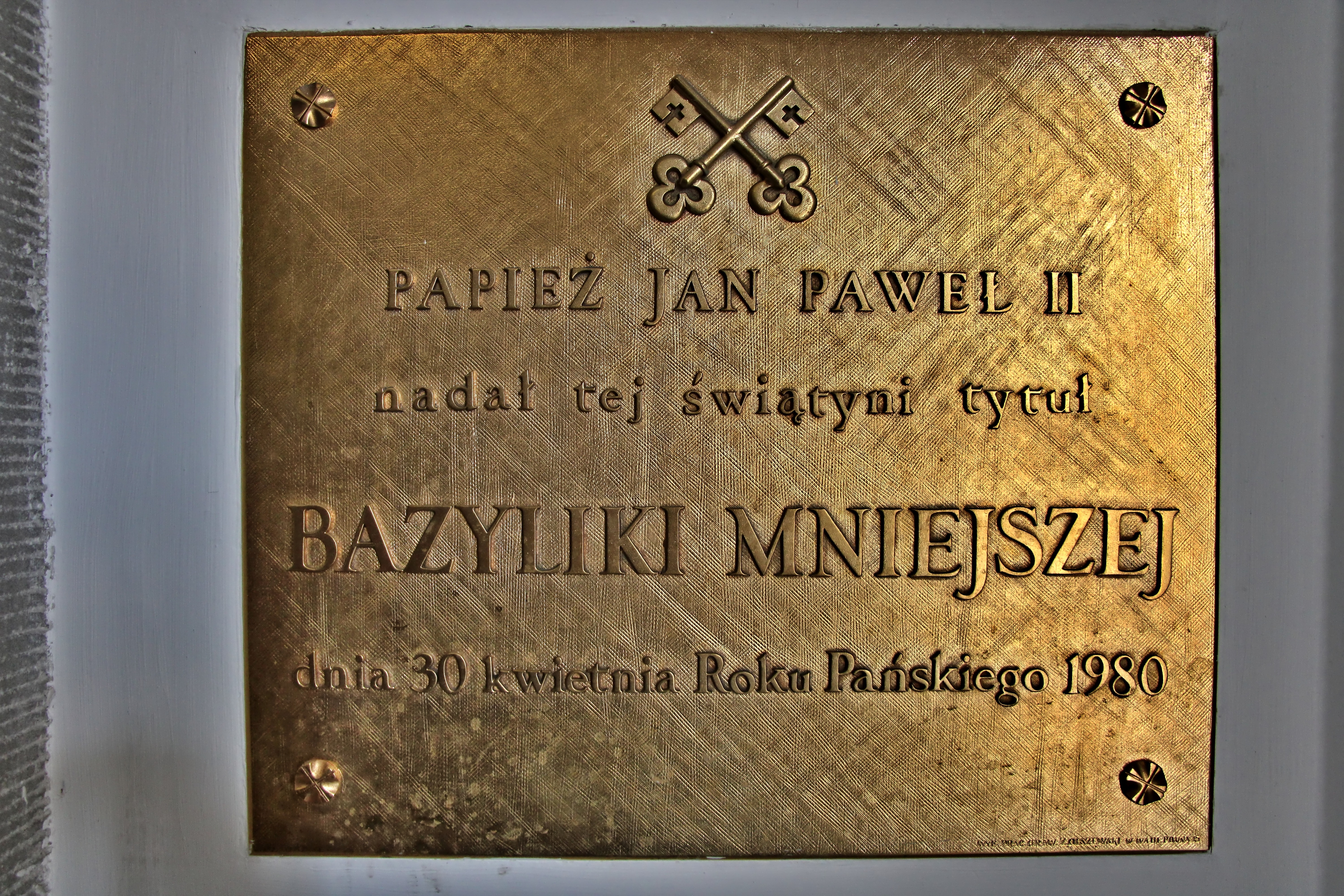 Basilica of Niepokalanów - memorial plaque